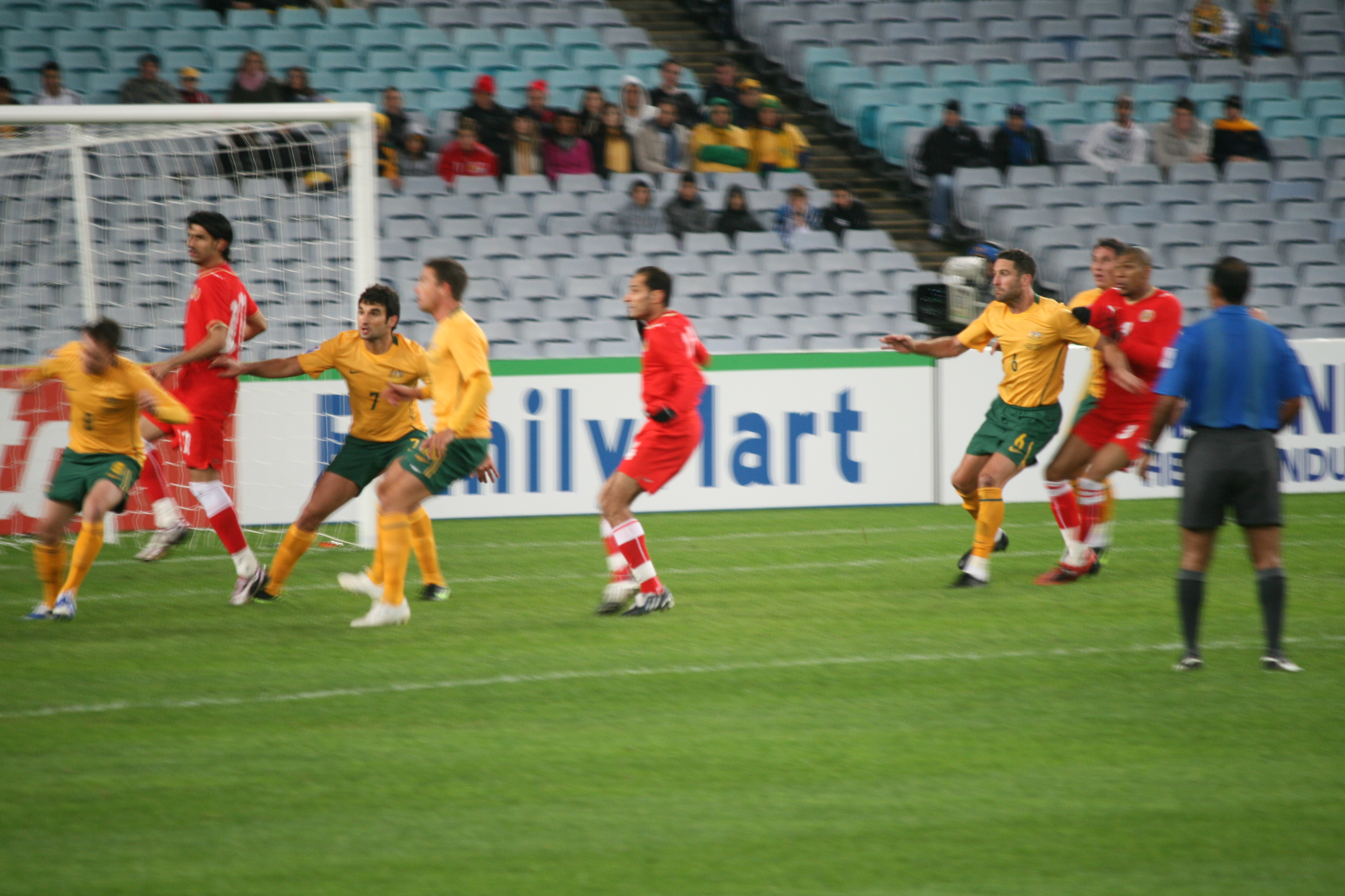 Socoroos vs Bahrain. World Cup Qualifier